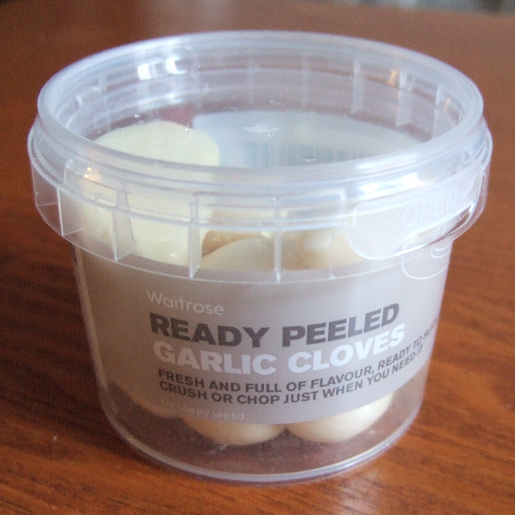 Waitrose ready peeled garlic in a plastic pot.